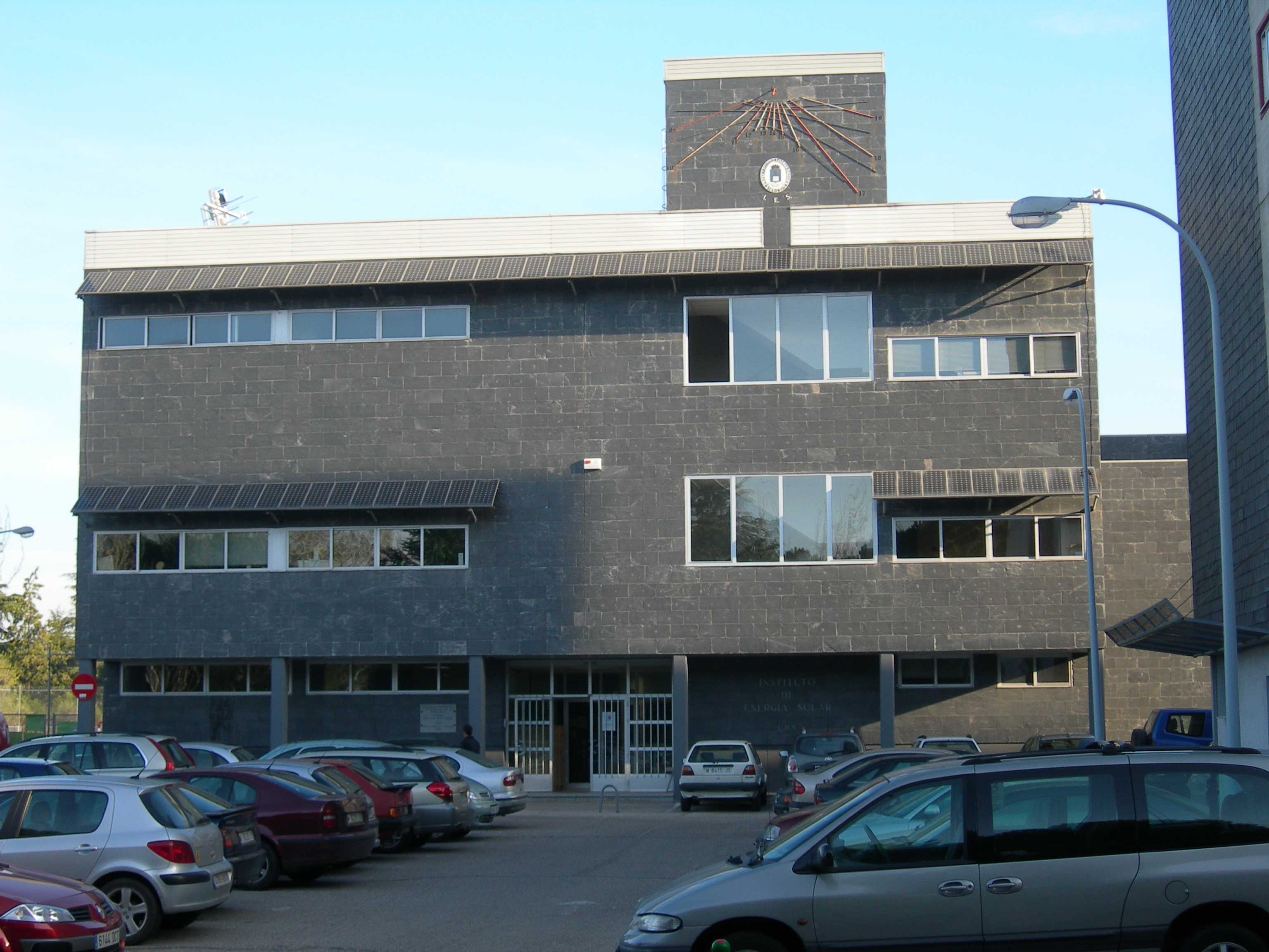 Institute of Solar Energy (IES), Technical University of Madrid (UPM), Spain. Associated to the Telecommunication Engineering School (ETSIT).